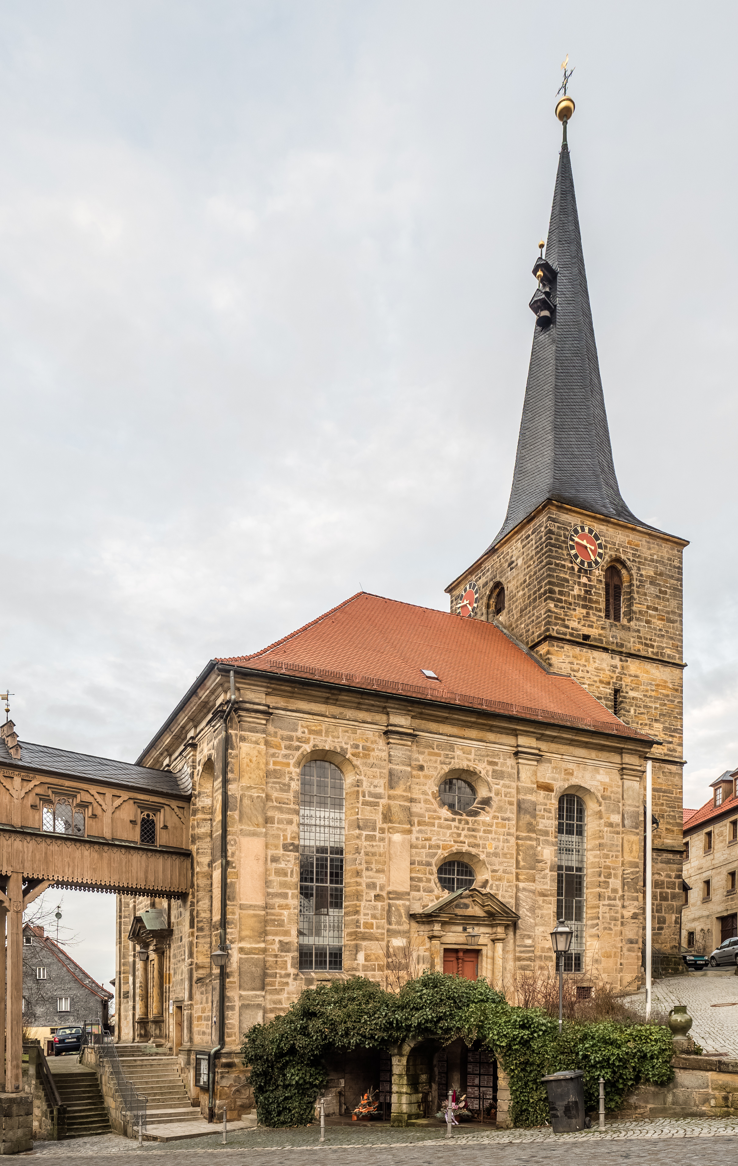 Protestant church St.Laurentius in Thurnau